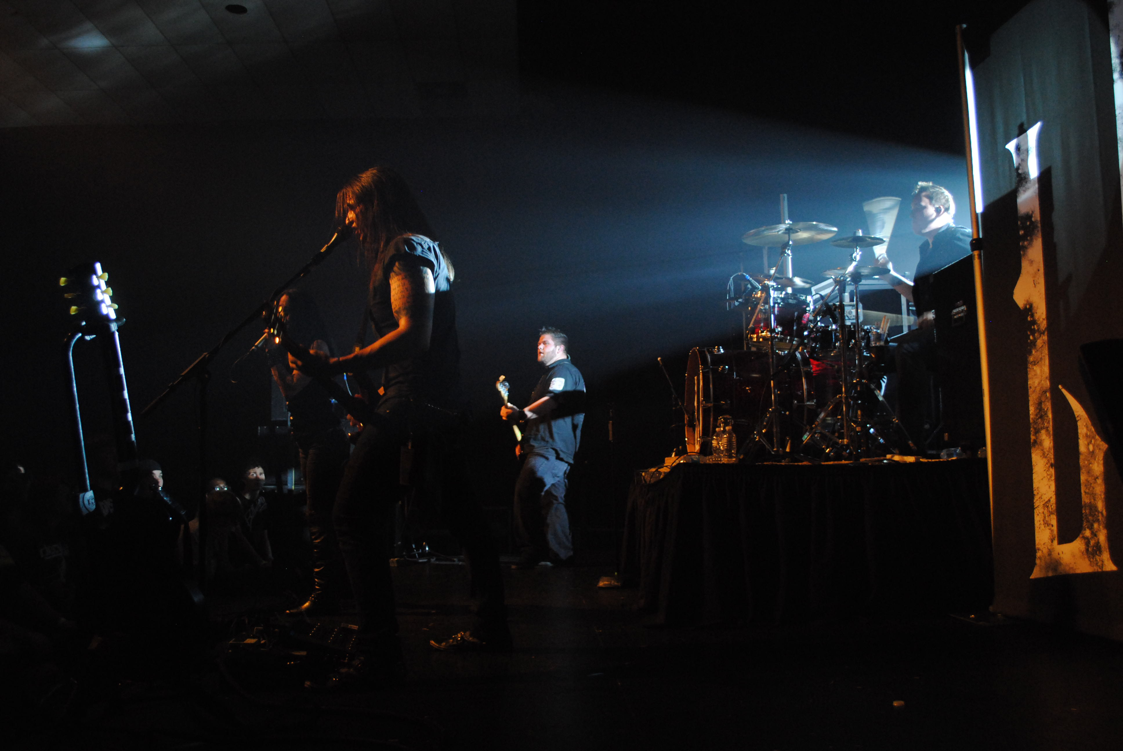 The Letter Black live in Jacksonville, Florida.